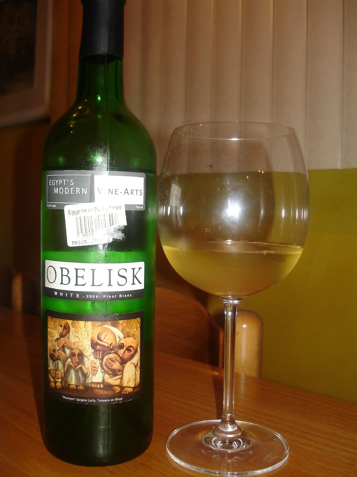 Egyptian wine